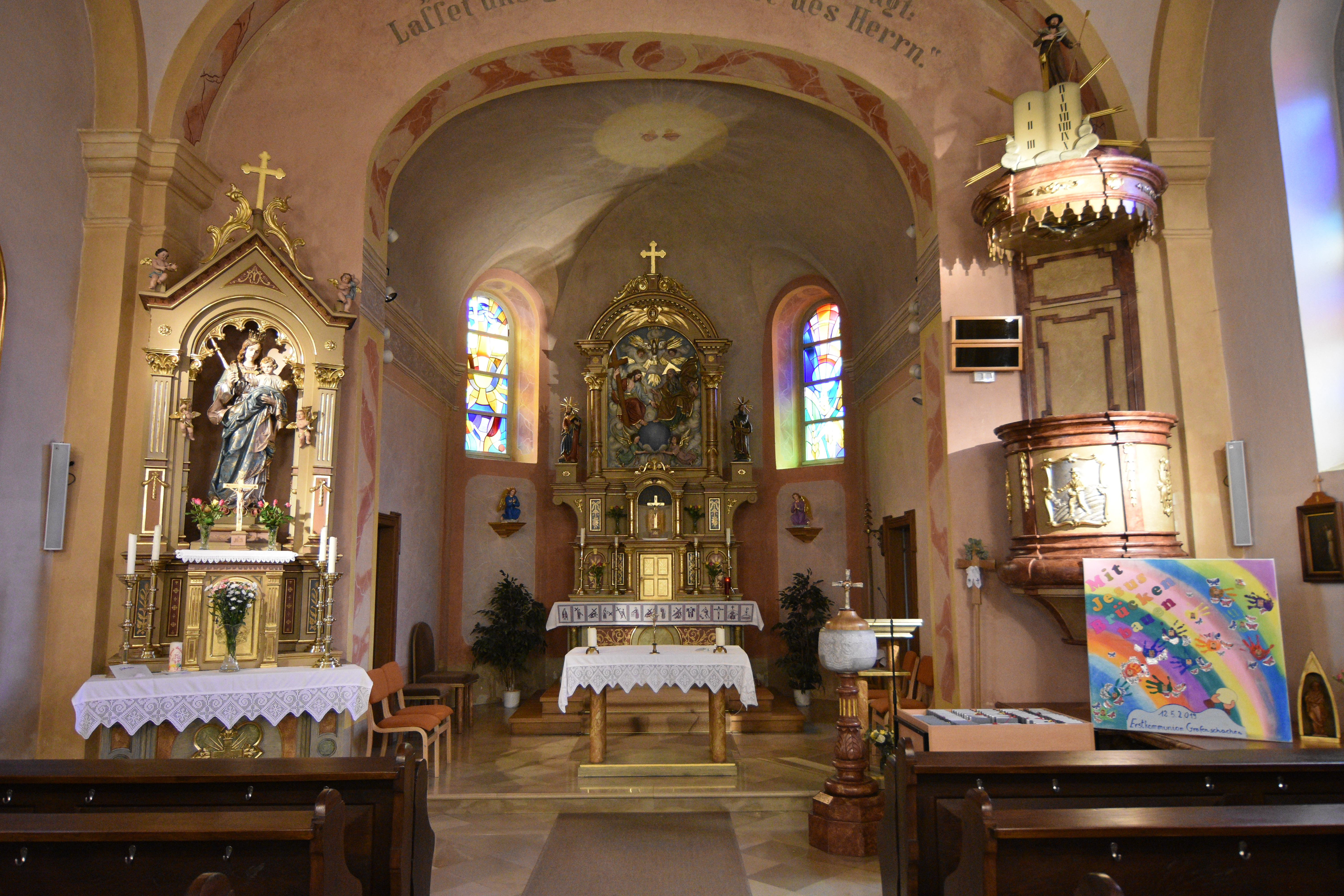 Church Grafenschachen - Interior